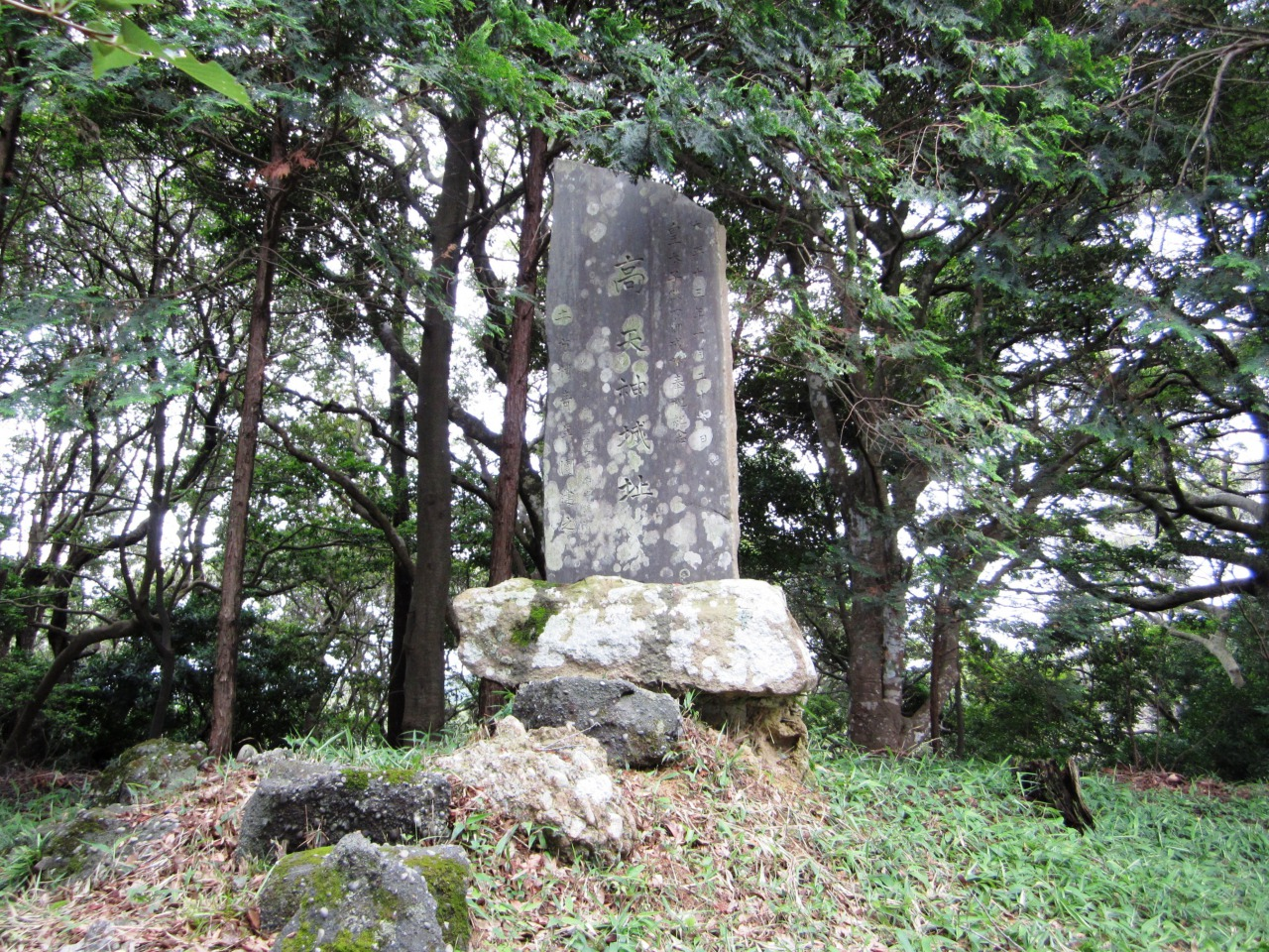 The Monument of Takatenjin Castle Site.